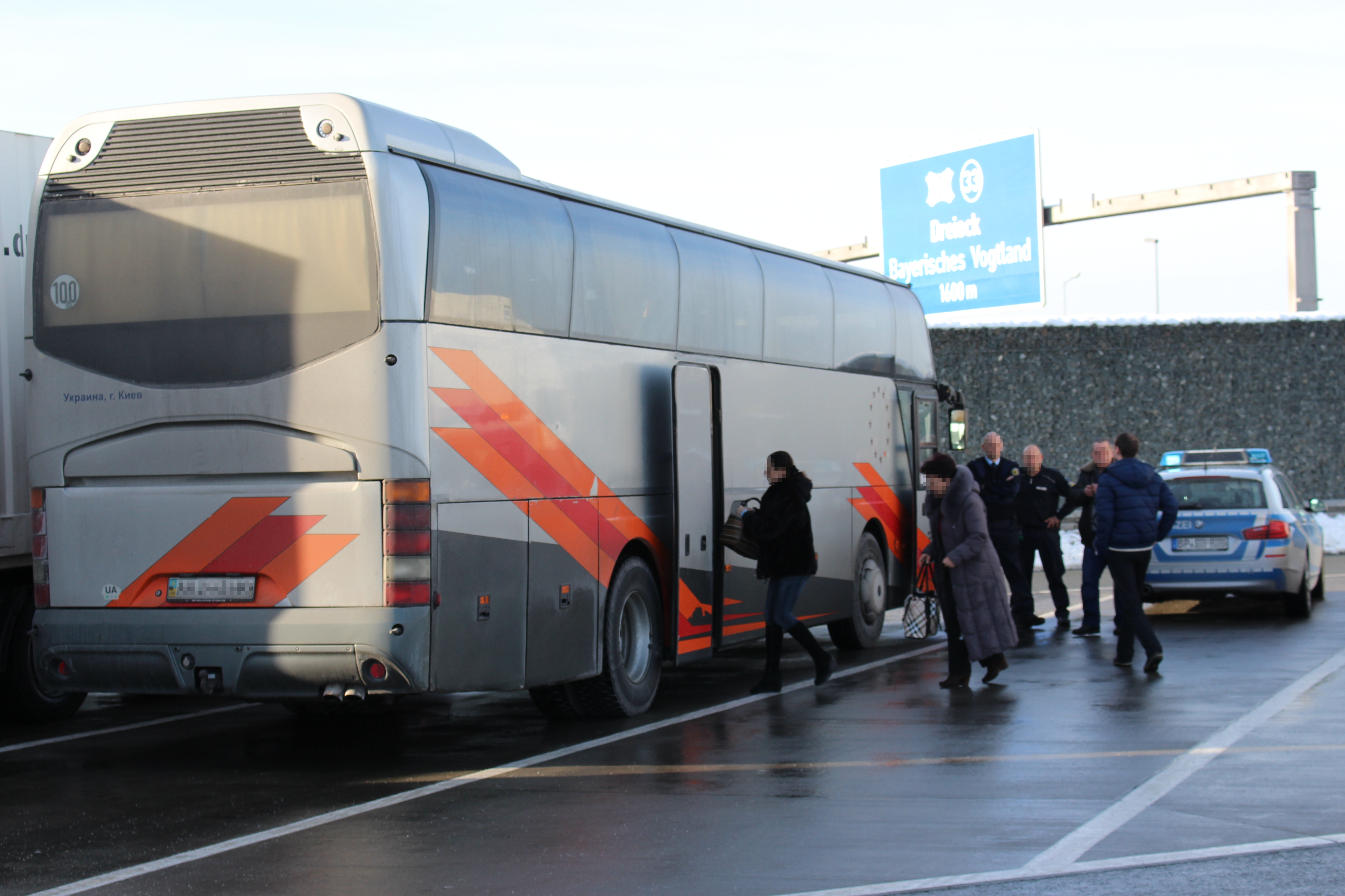 Stop and search of a ukrainian long-distance bus of the german Federal Police at the resting place Lipperts of the german motorway 9, northern driving direction.